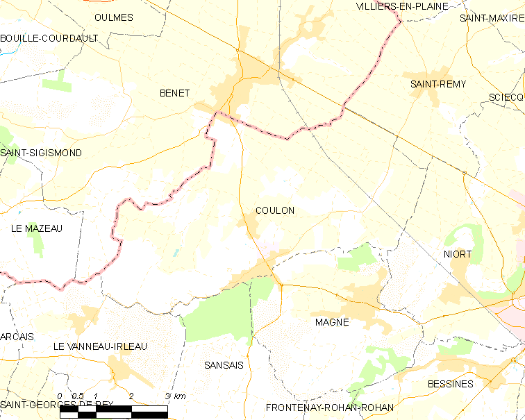 Map of French municipality Coulon